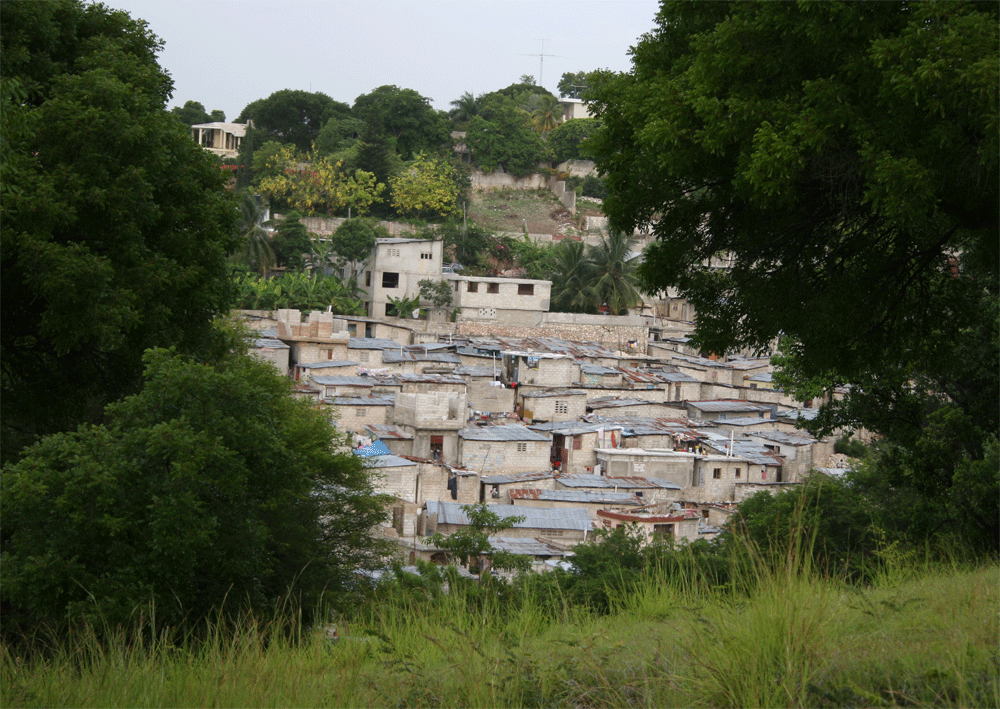 one of the poor neighborhoods of Port-au-Prince, as seen from the Petion-Ville Golf Club. June'06. Author: Alsandro